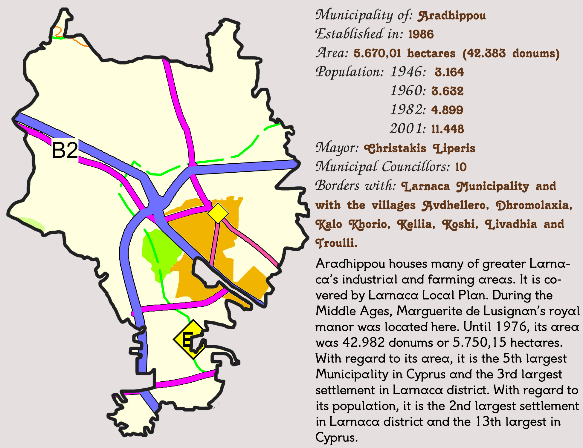 Concise presentation of Aradhippou